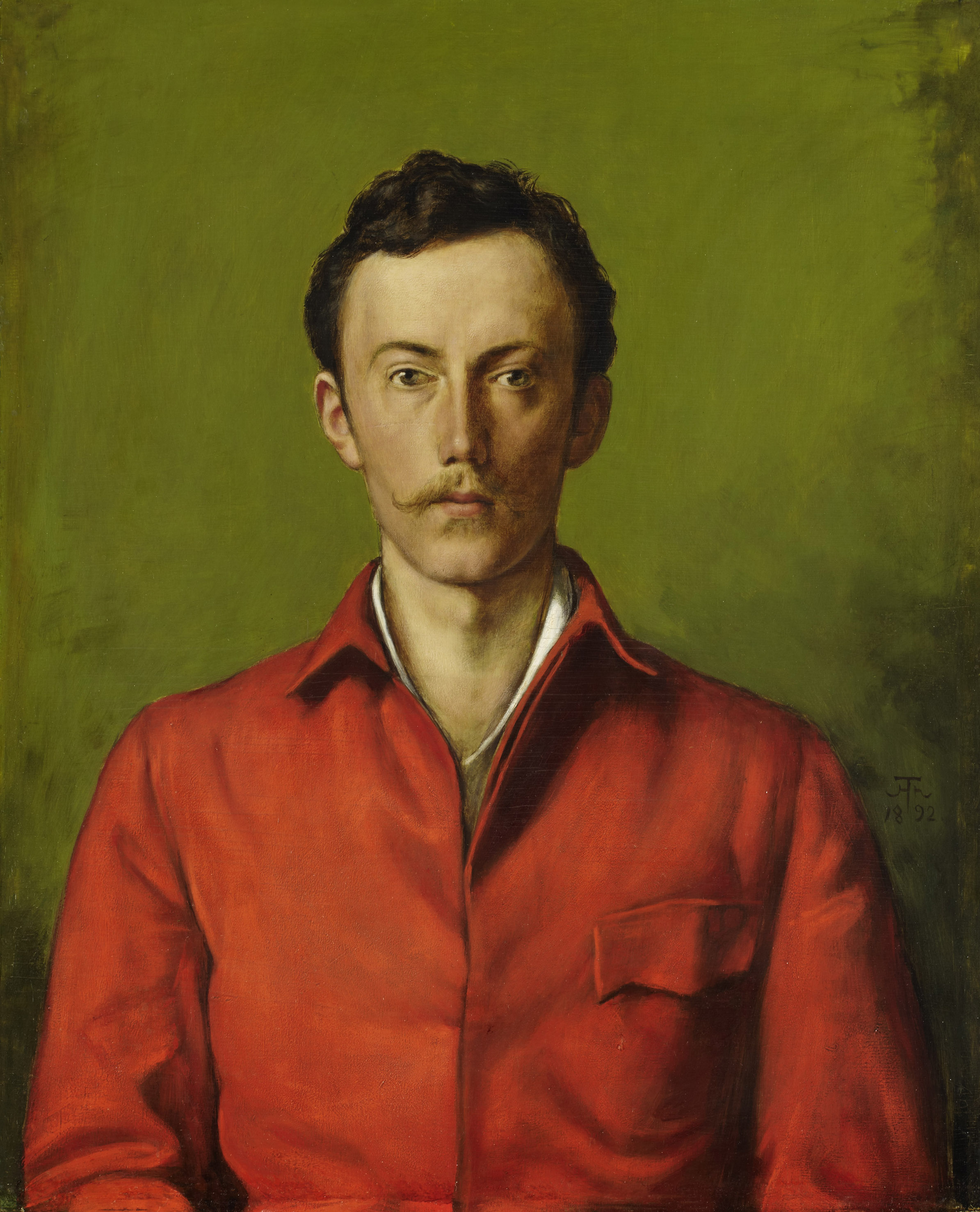 Friedrich Karl Prinz von Hesse-Kassel , Head of the House of Hesse, King of Finnland (b.1868-d.1940)